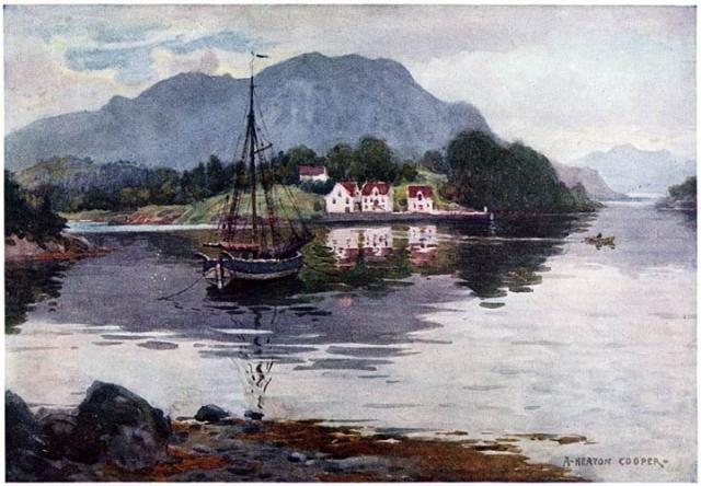 (Removed after reusableart request.)